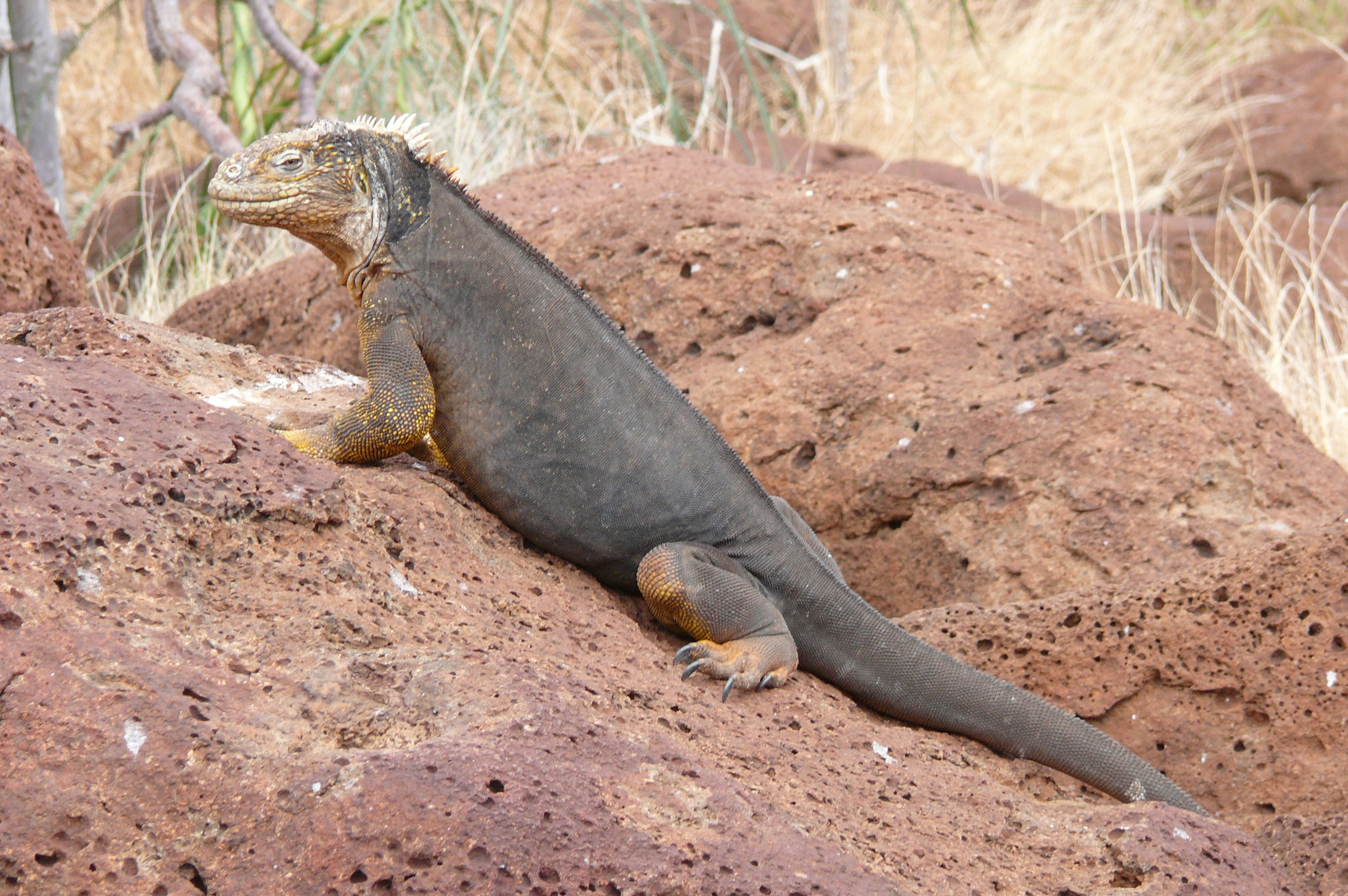 Galapagos Land Iguana (Conolophus subcristatus)